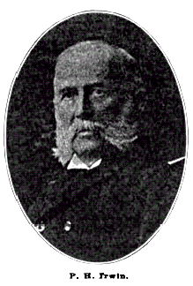 P. H. Irwin